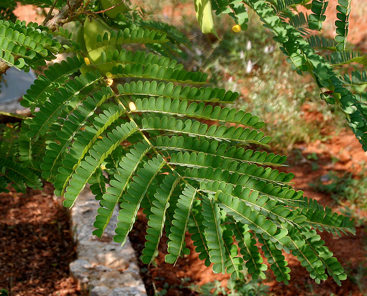 Caesalpinia sappan L. (syn. Biancaea sappan (L.)Tod.)- Sappanwood, Sapanwood, Bukkum-wood, Bois Sappan, Gangoor, Caesalpinia Sappan, Patamg, Bakam, Suou (Japanese); Burmese (teing-nyet); English (false sandalwood, Indian brazilwood, Indian redwood); Filipino (sapang, sibukao); French (bois de sappan,sappan); Hindi (bokmo, bakan, patungam, vakum, vakam, patunga); Indonesian (soga jawa, secang, kayu sekang, kayu cang); Javanese (soga jawa); Lao (Sino-Tibetan) (fang deeng, faang); Malay (sepang); Thai (ngaai, faang, fang som); Trade name (sappan lignum, brazilin, sappanwood); Vietnamese (tô môc,hang nhuôm)- in Herbal Garden, in Rangareddy district of Andhra Pradesh, India.